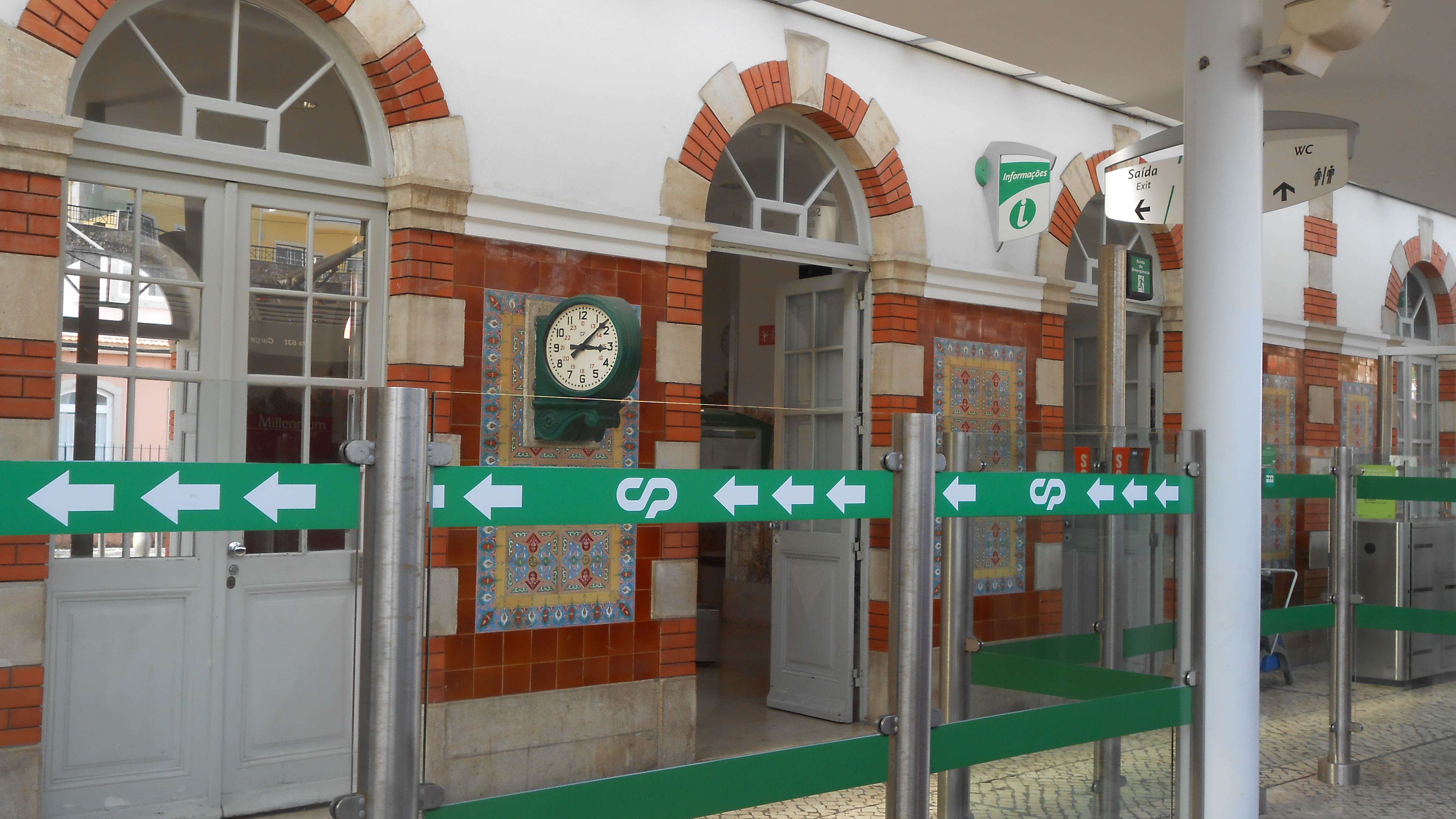 Inside the Sintra train station.